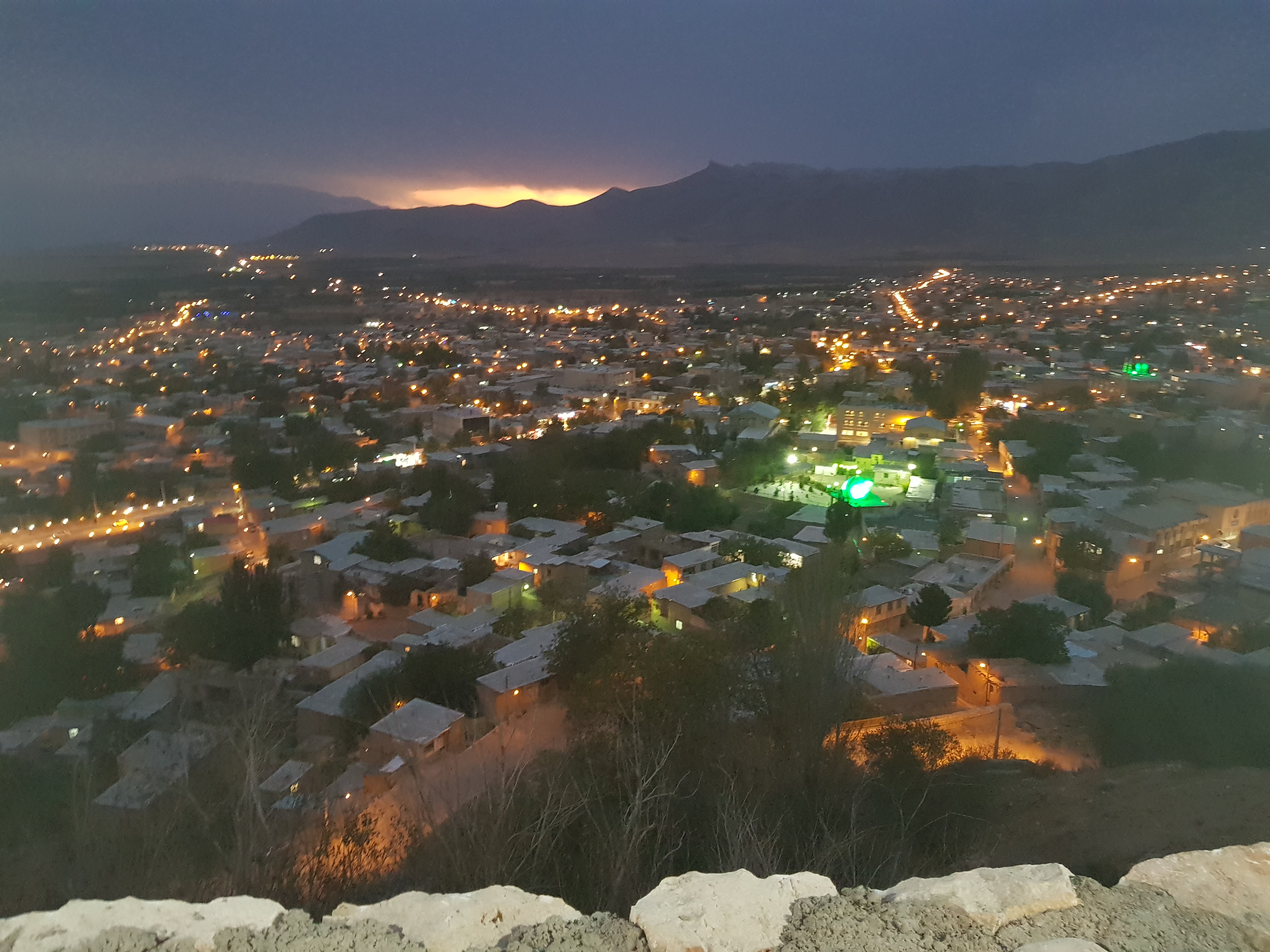 A picture of the city of Semirom over a hill next to the city